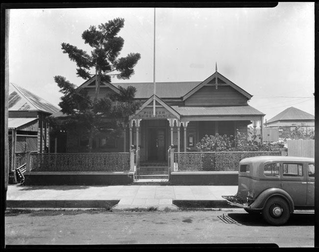 Pioneer Shire Council Chambers, circa 1940